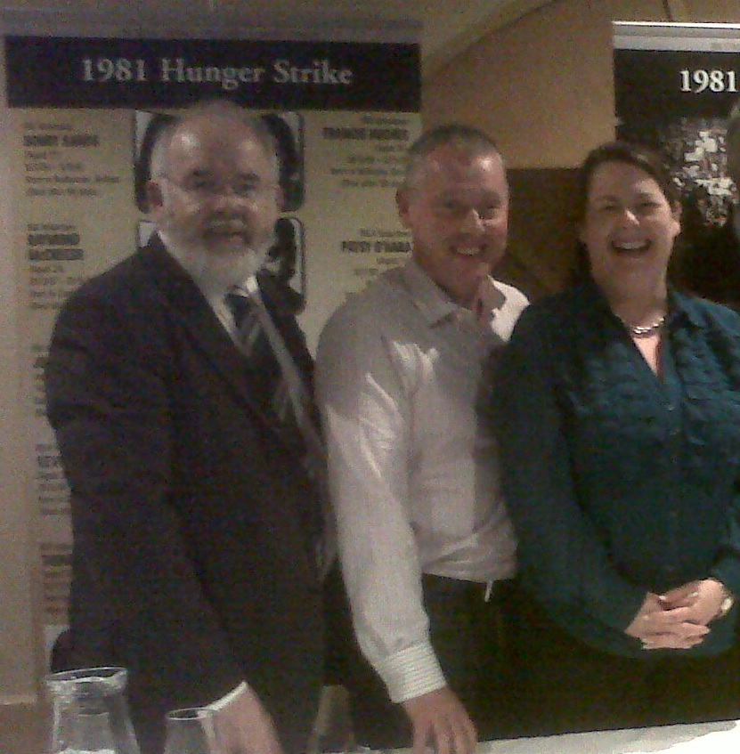 Sean Lynch, Francie Molloy and Michelle Gildernew speaking in Lisnaskea